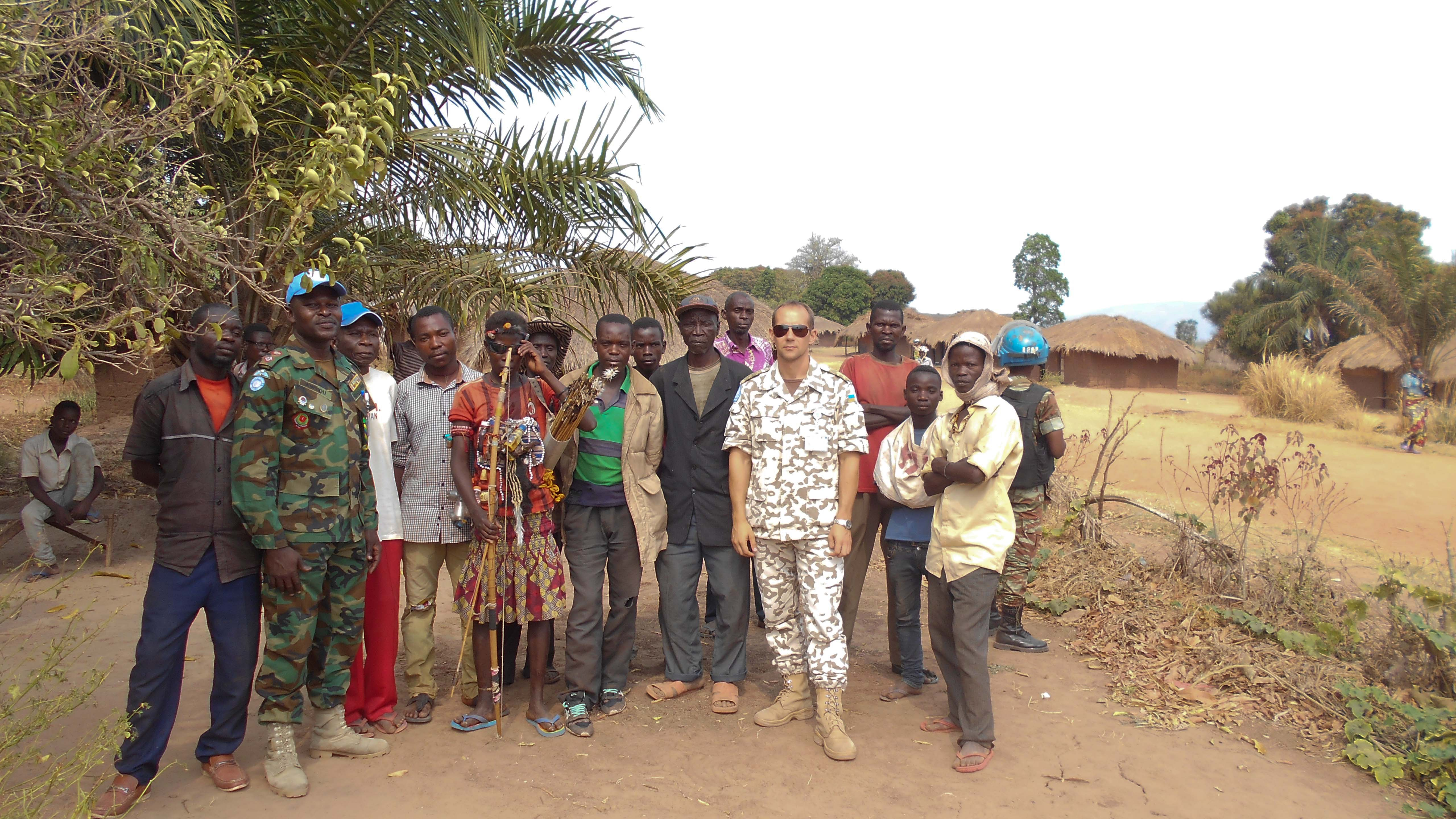 Kalemie, Tanganyika Province, DR Congo: Military observers of MONUSCO accompanied by FARDC sensitize militiamen known as "elements" (Bantu) on peace. Here in Mulange, 24 kms from Kalemie, on the Moba road, these young militiamen confidently interact with the military observers and the FARDC.Photo MONUSCO/Force